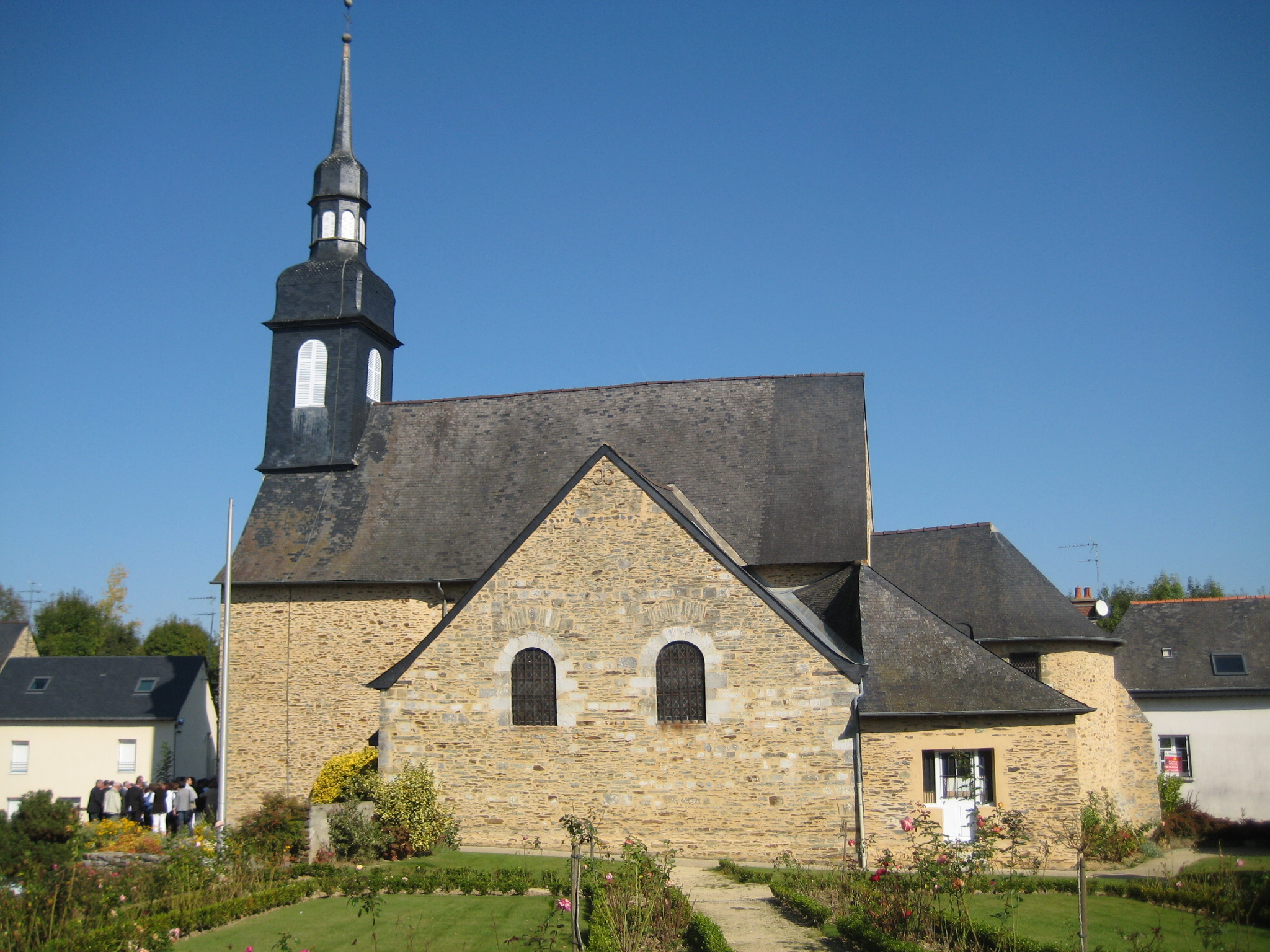 Church of Brécé